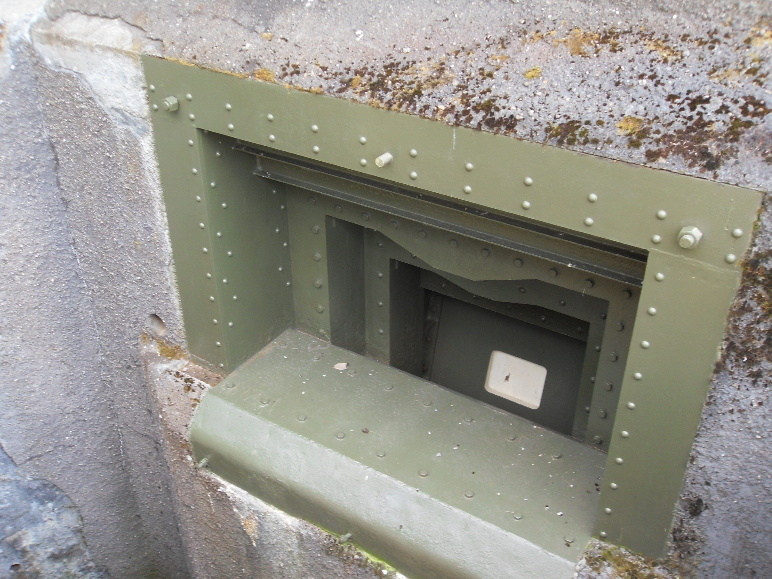 R-S 87 Průsek infantry casemate, Rychnov nad Kněžnou District, Czech Republic